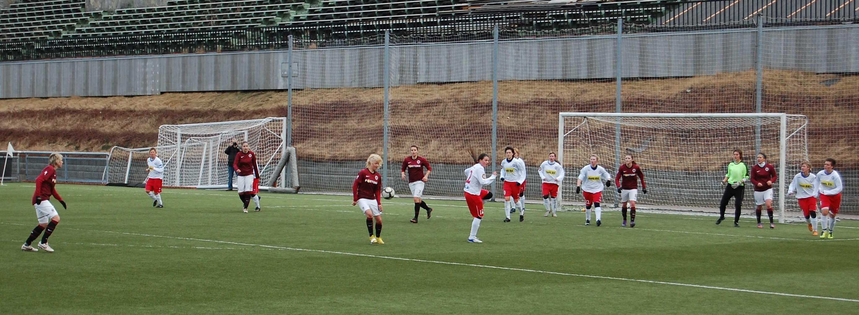 Sparta Prague and Zbrojovka Brno in a quarter final match of the Pohár KFŽ (women's cup)